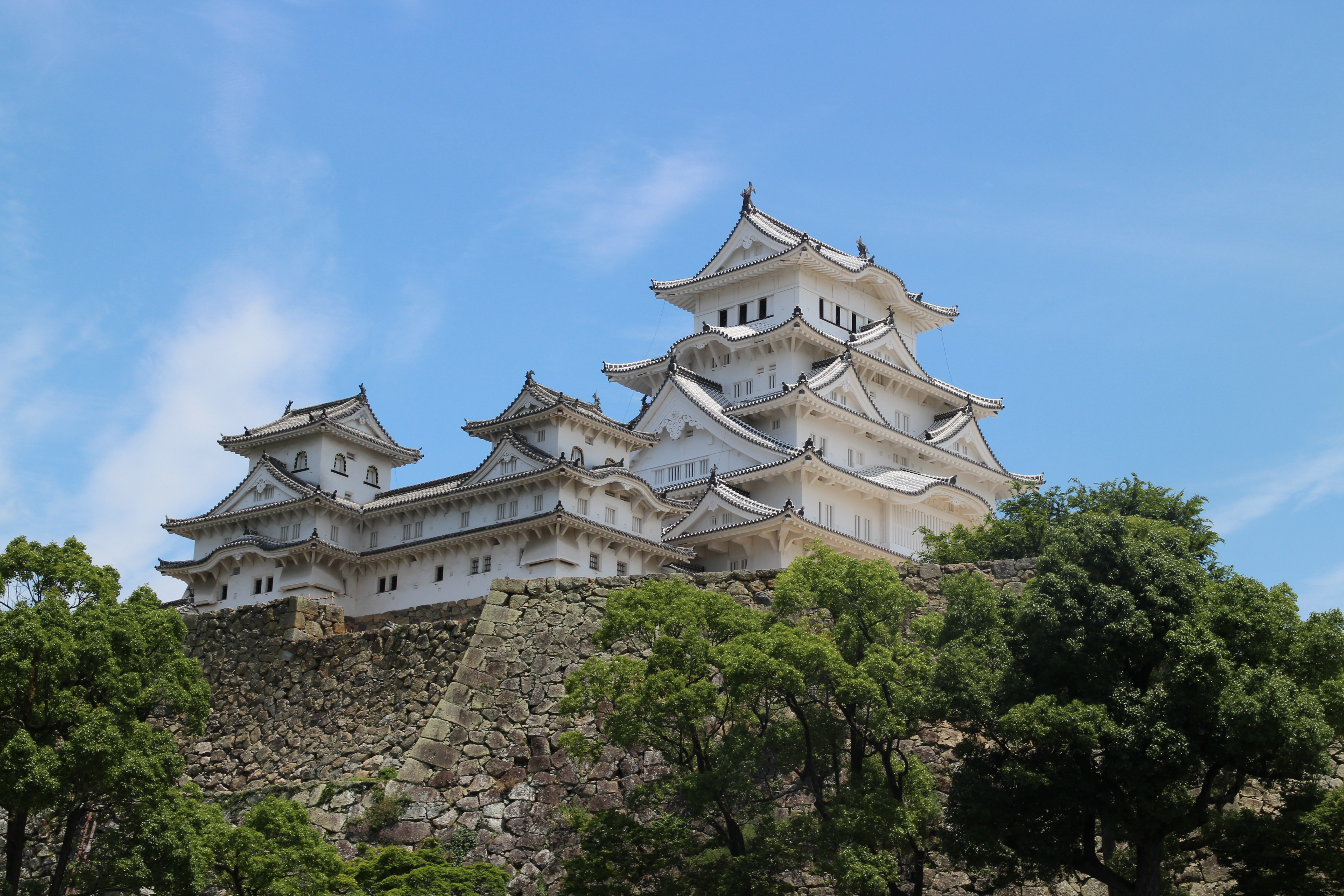 Himeji Castle Keep Tower